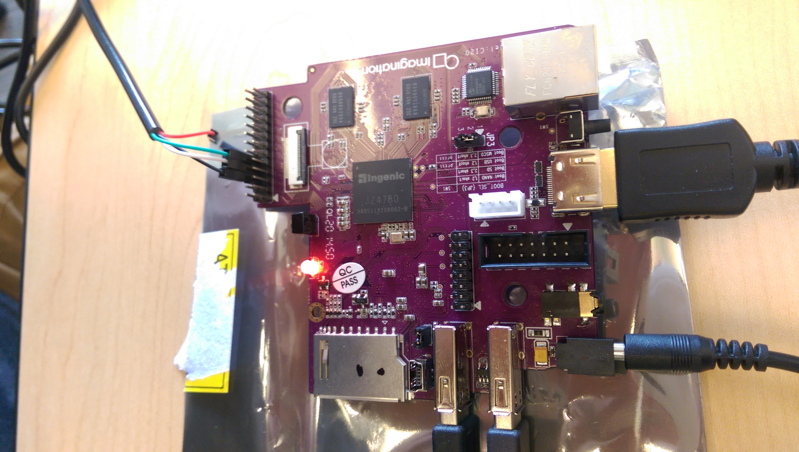 The ImgTec MIPS Creator CI20 system-on-a-chip.